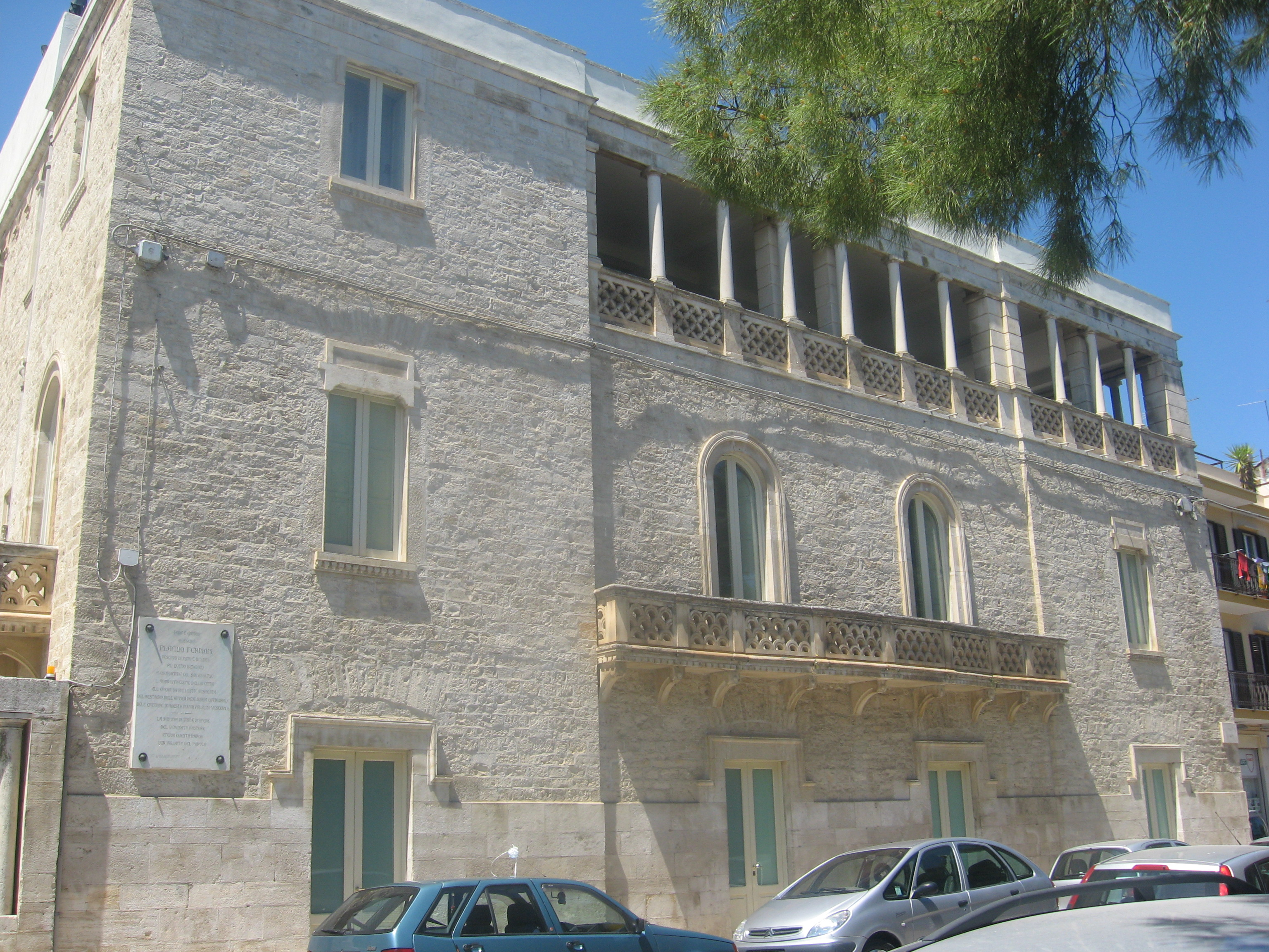 Episcopio